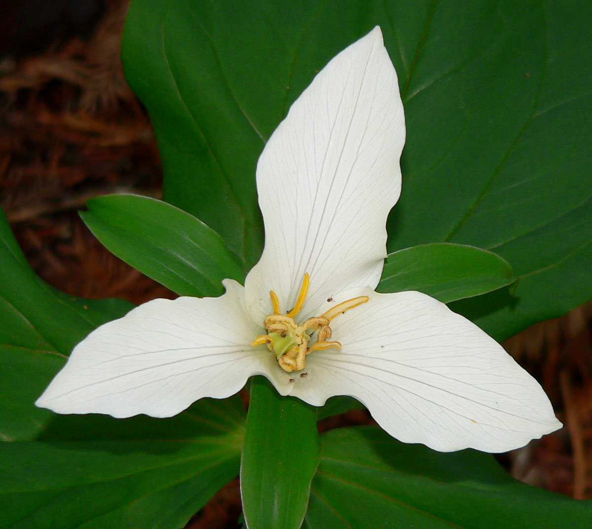 Photo of Trillium ovatum ssp. ovatum at the Regional Parks Botanic Garden, Berkeley, California